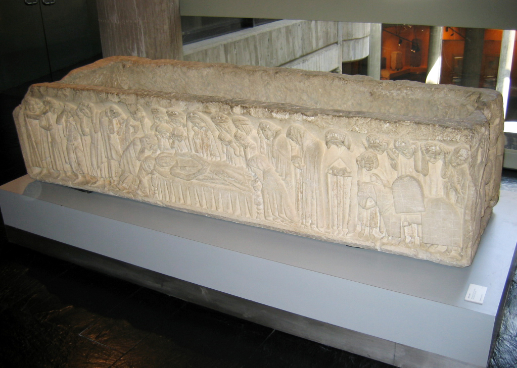 Sarcophagi of Santa María de la Vega (Renedo de la Vega) in the Archaeological Museum of Palencia (Castile and León).